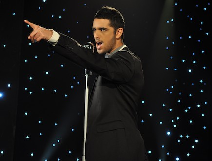 i took that photo